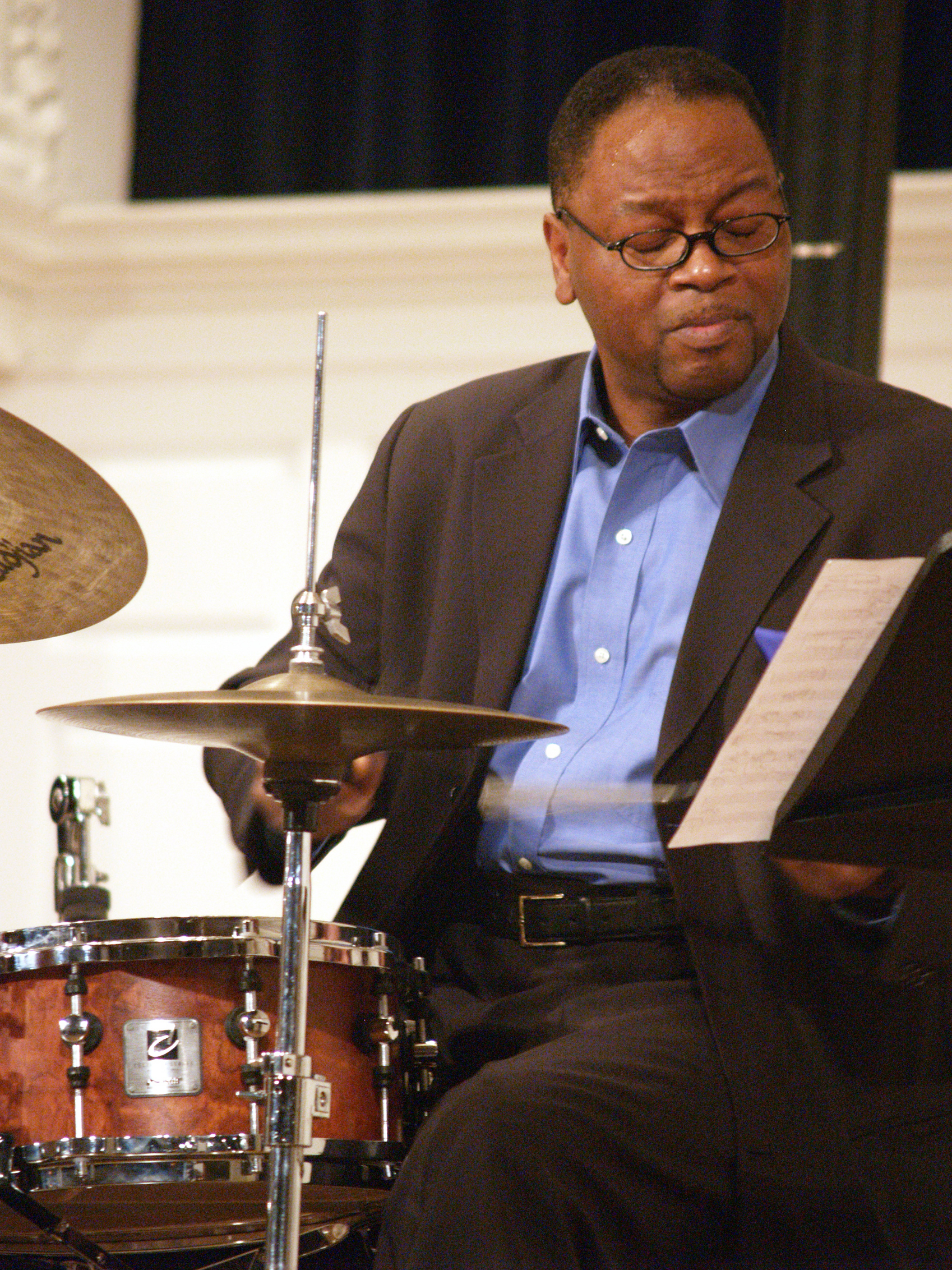 Jazz drummer Lewis Nash in concert at Sprague Hall in New Haven, CT - September 14, 2007.